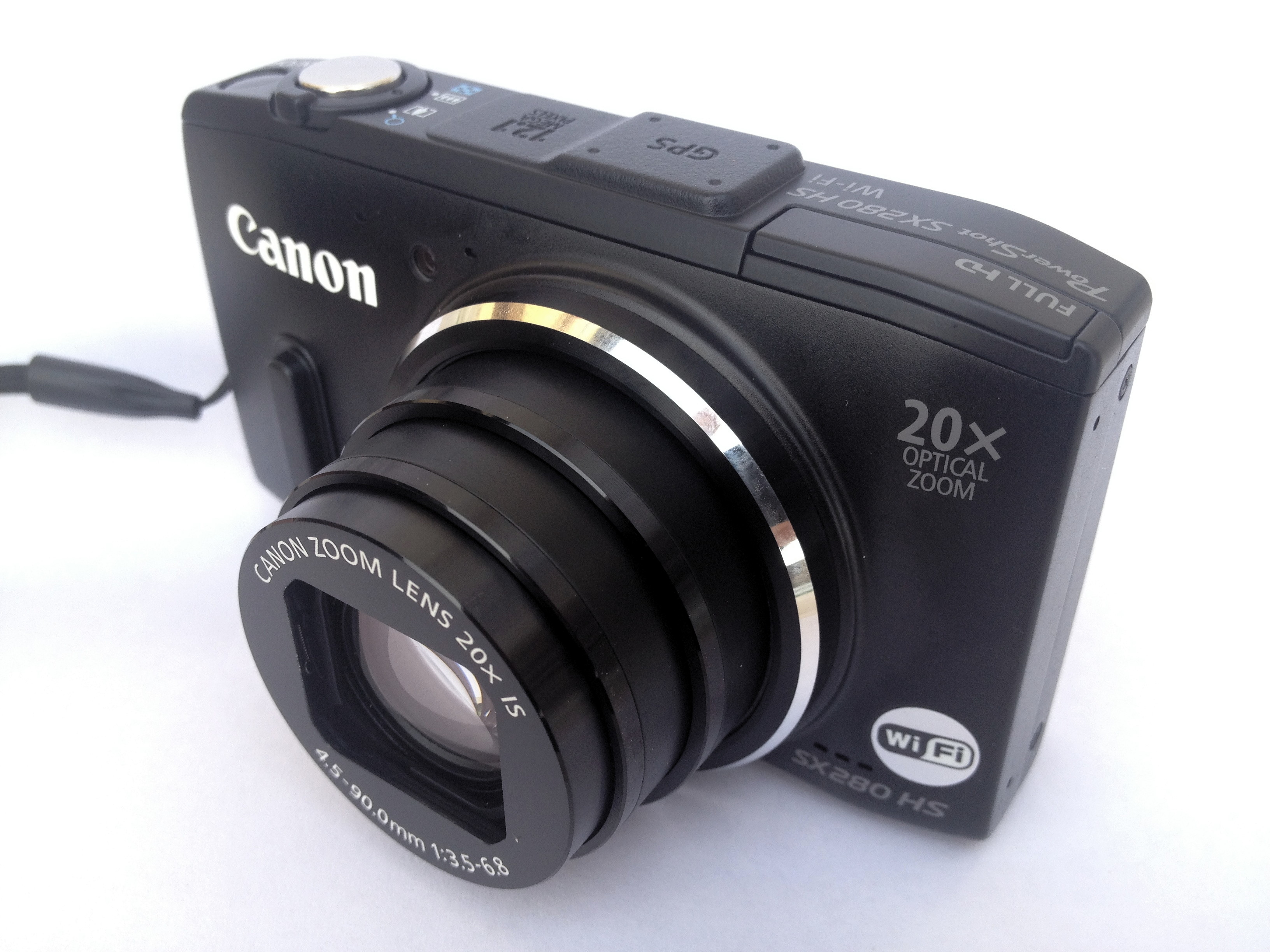 Canon PowerShot SX280 HS